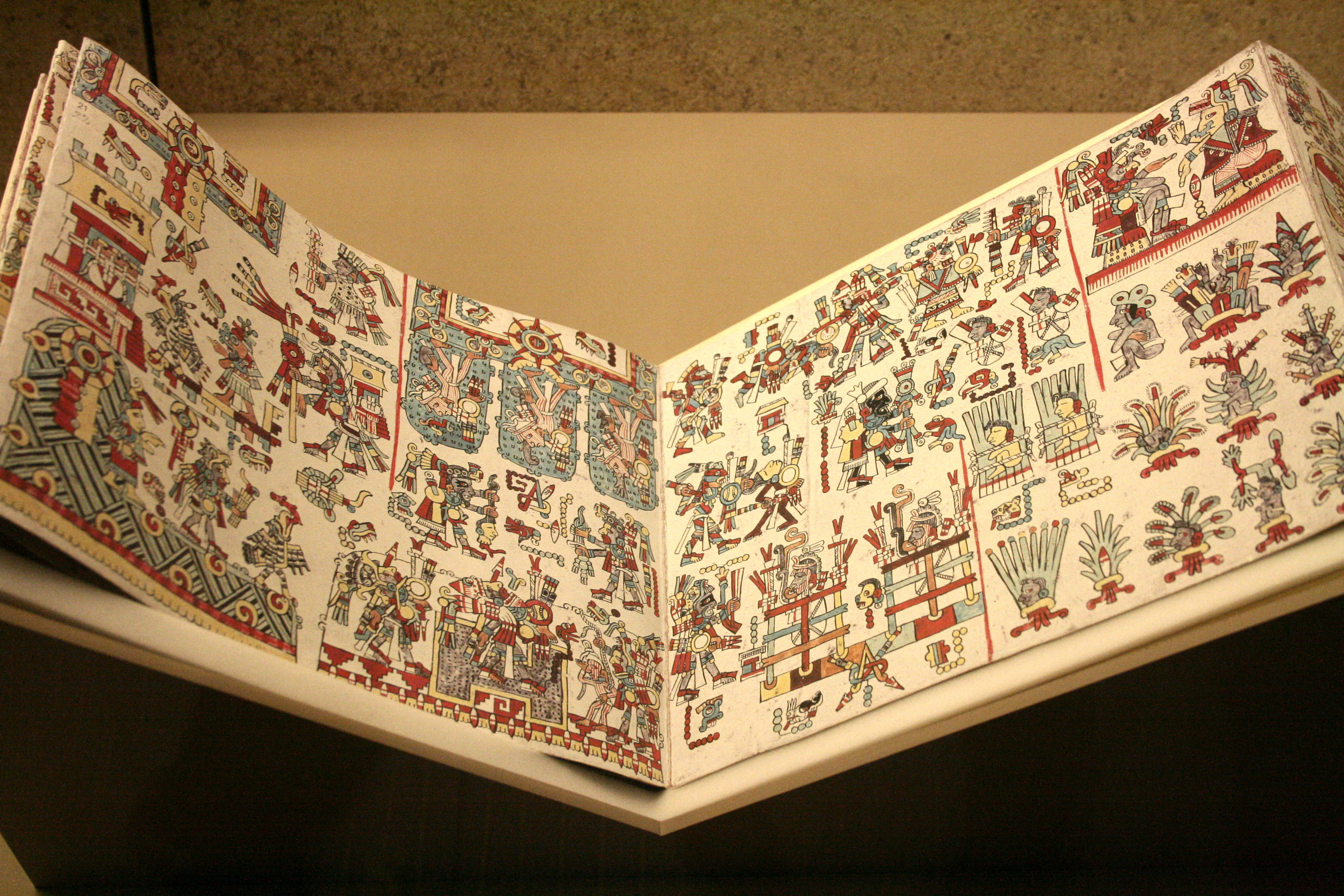 Two folding pages of Codex Zouche-Nuttall, Mixtec, Postclassic. British Museum